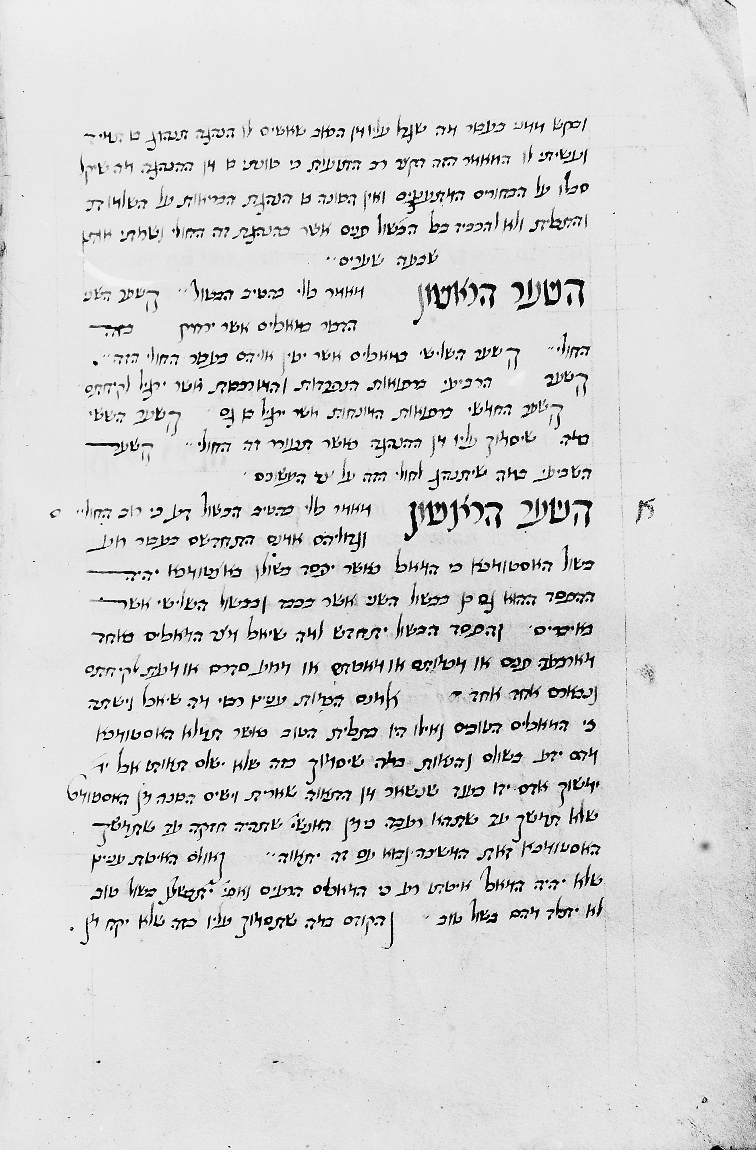 Maimonides' Treatise on Haemorrhoids, Hebrew Wellcome Images Keywords: Moses Maimonides; History of Medicine; piles, 14th century